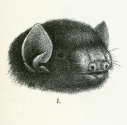 Scotophilus nigrita (syn. Scotophilus gigas), head